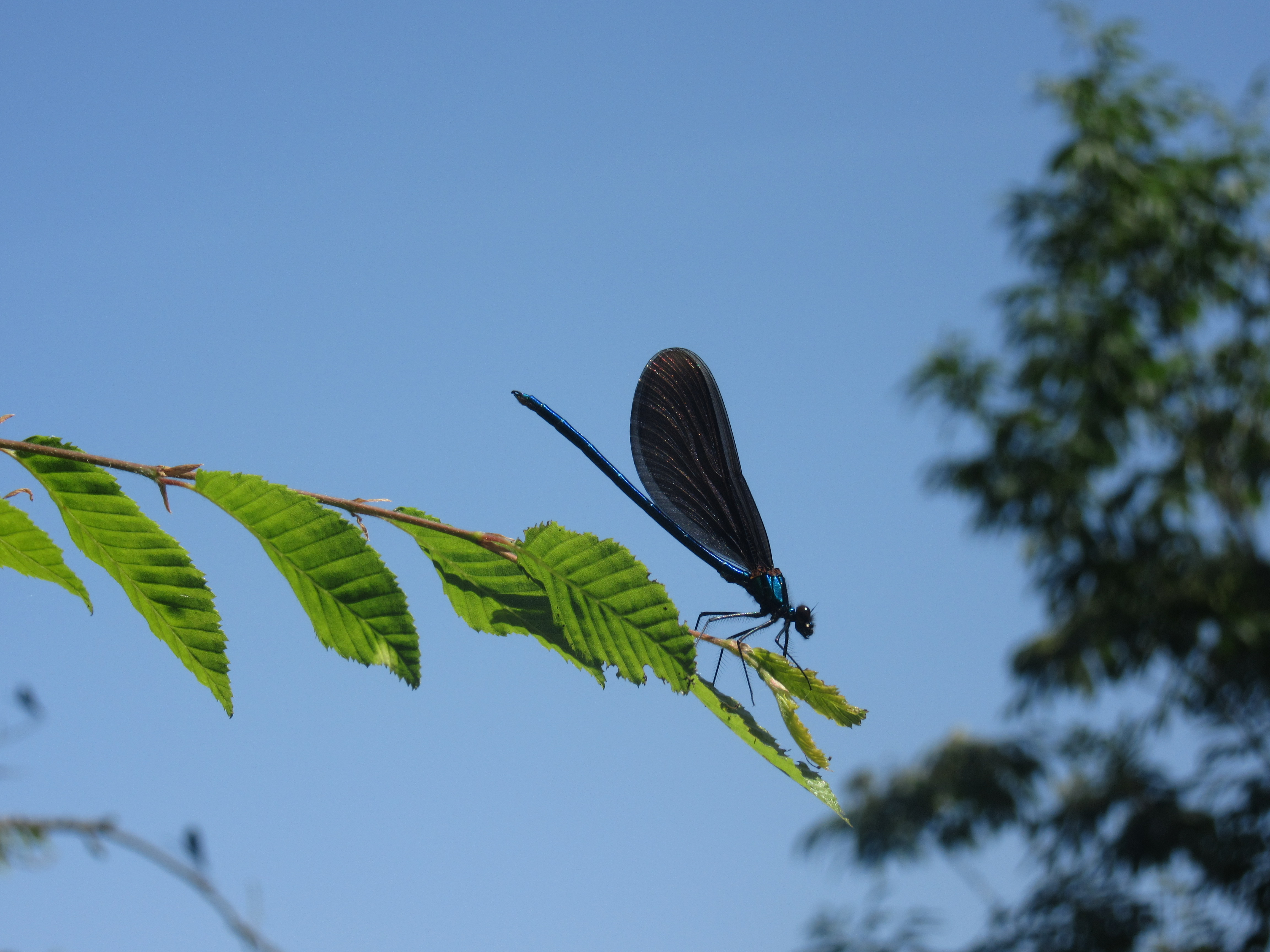 Calopteryx Virgo (male) from Rusenski Lom canyon